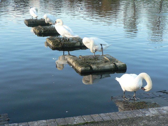 Five swans a-preening; Five swans give themselves a quick preen on a man-made lake at Waterworks park (between Antrim Road and Cavehill Road, north Belfast - Northern Ireland).